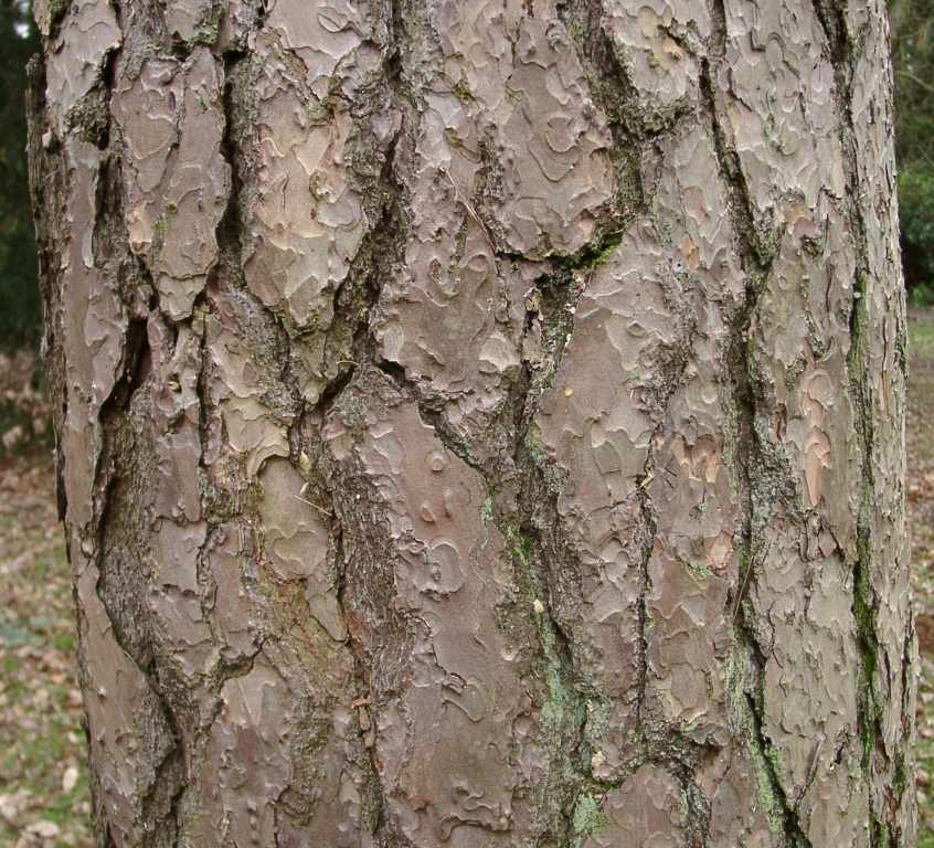 Bark on a mature tree.